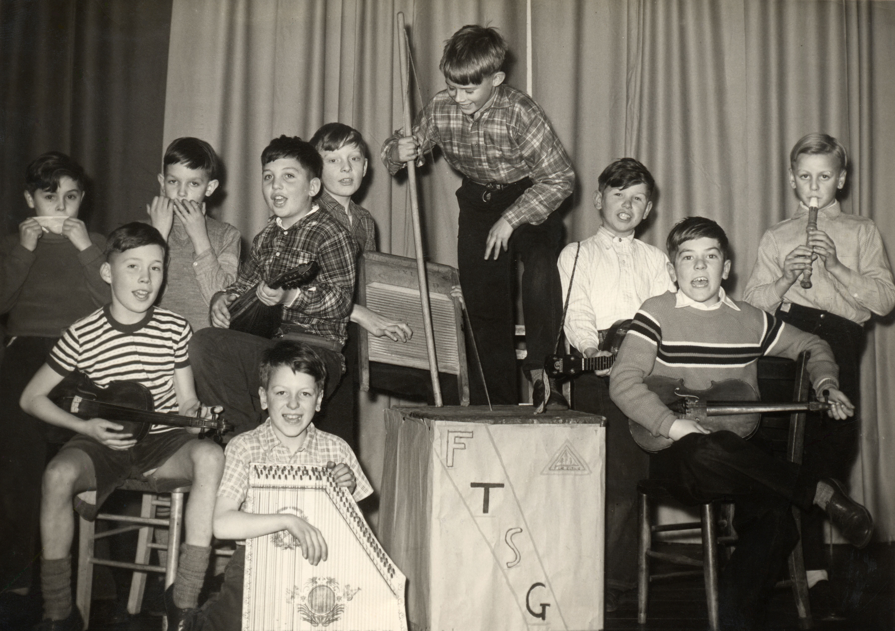 Firs Estate School Skiffle Group Christmas 1957.